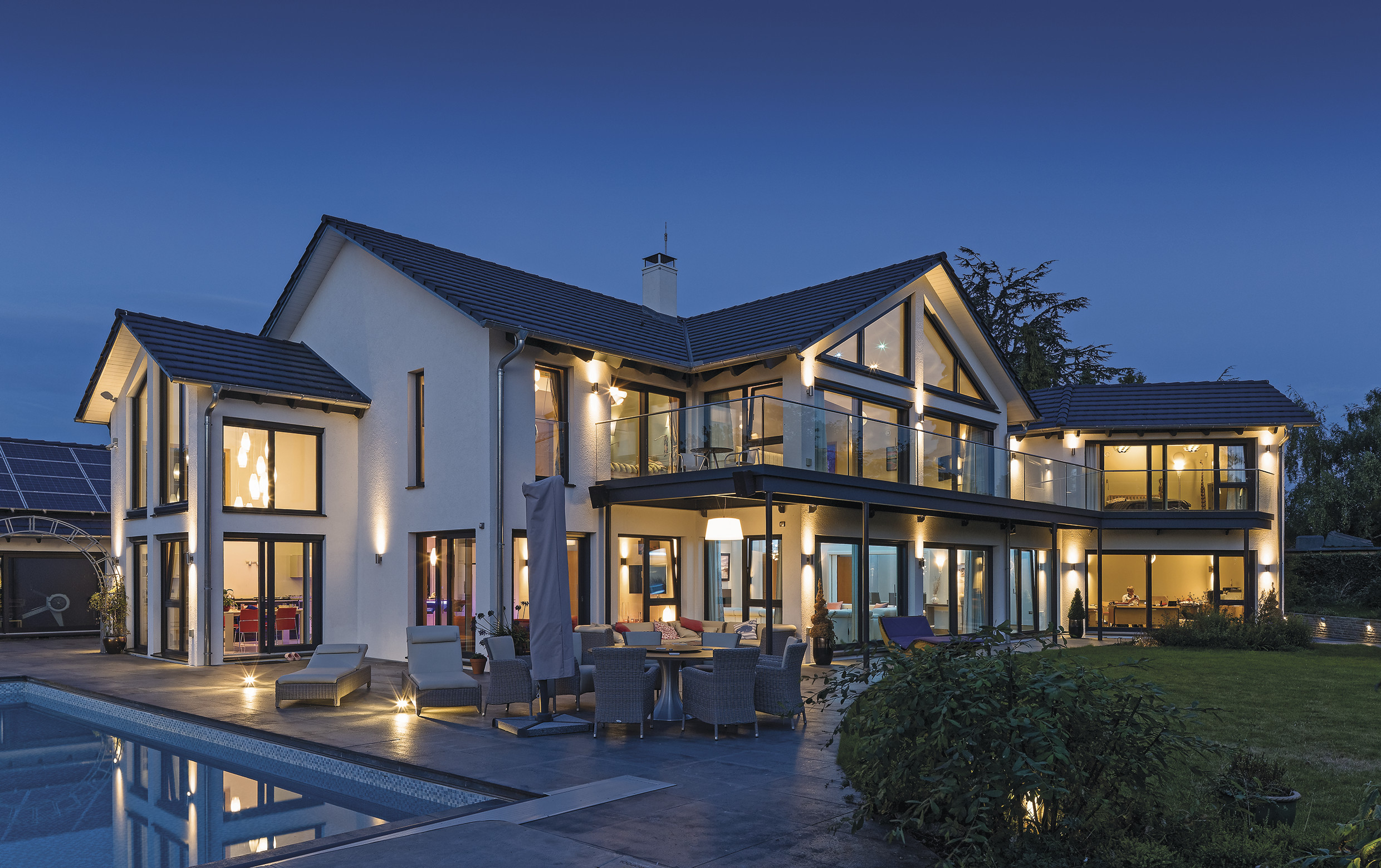 One of our customer homes in England